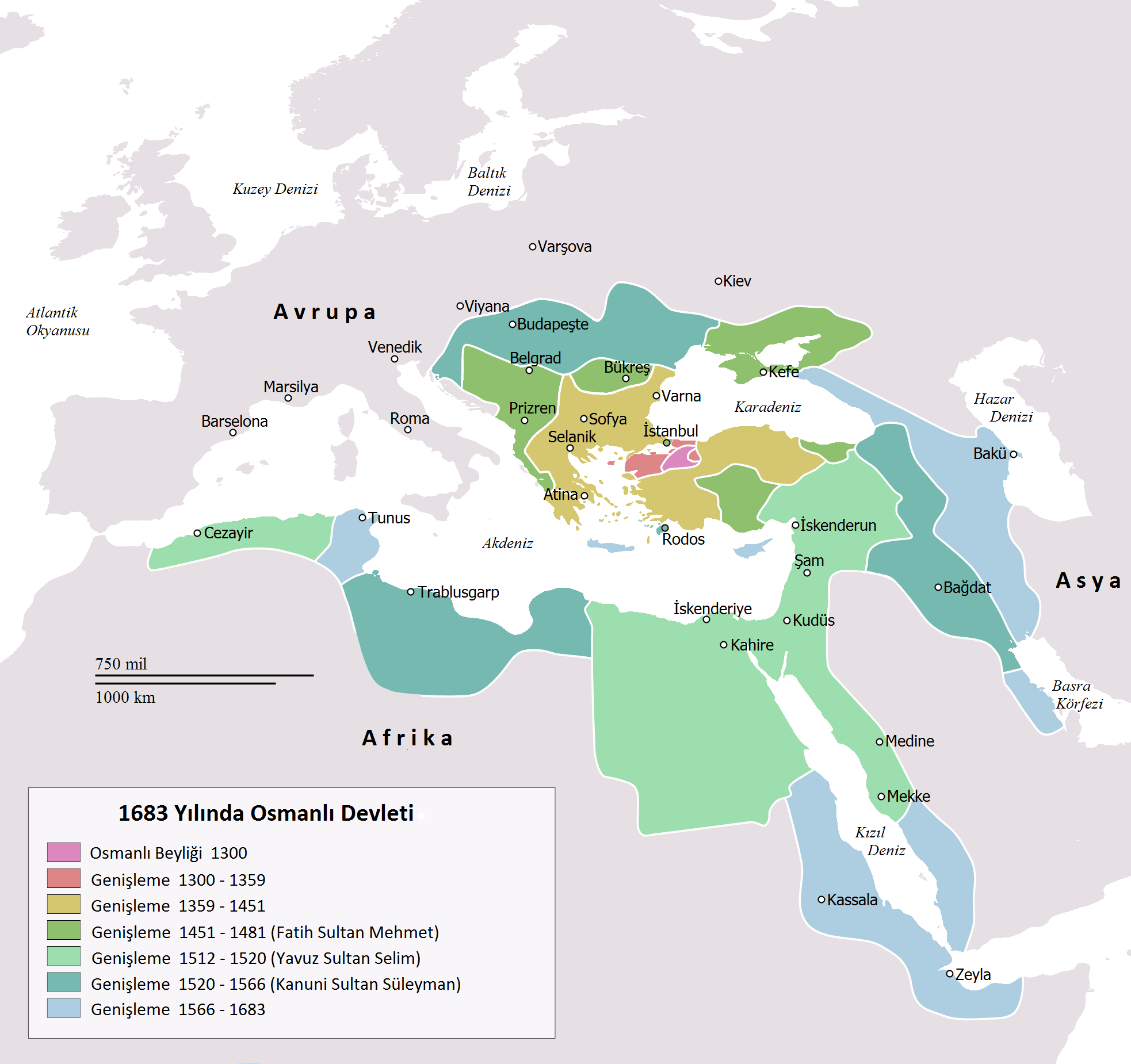 Map depicting the Ottoman Empire at its greatest extent, in 1683.